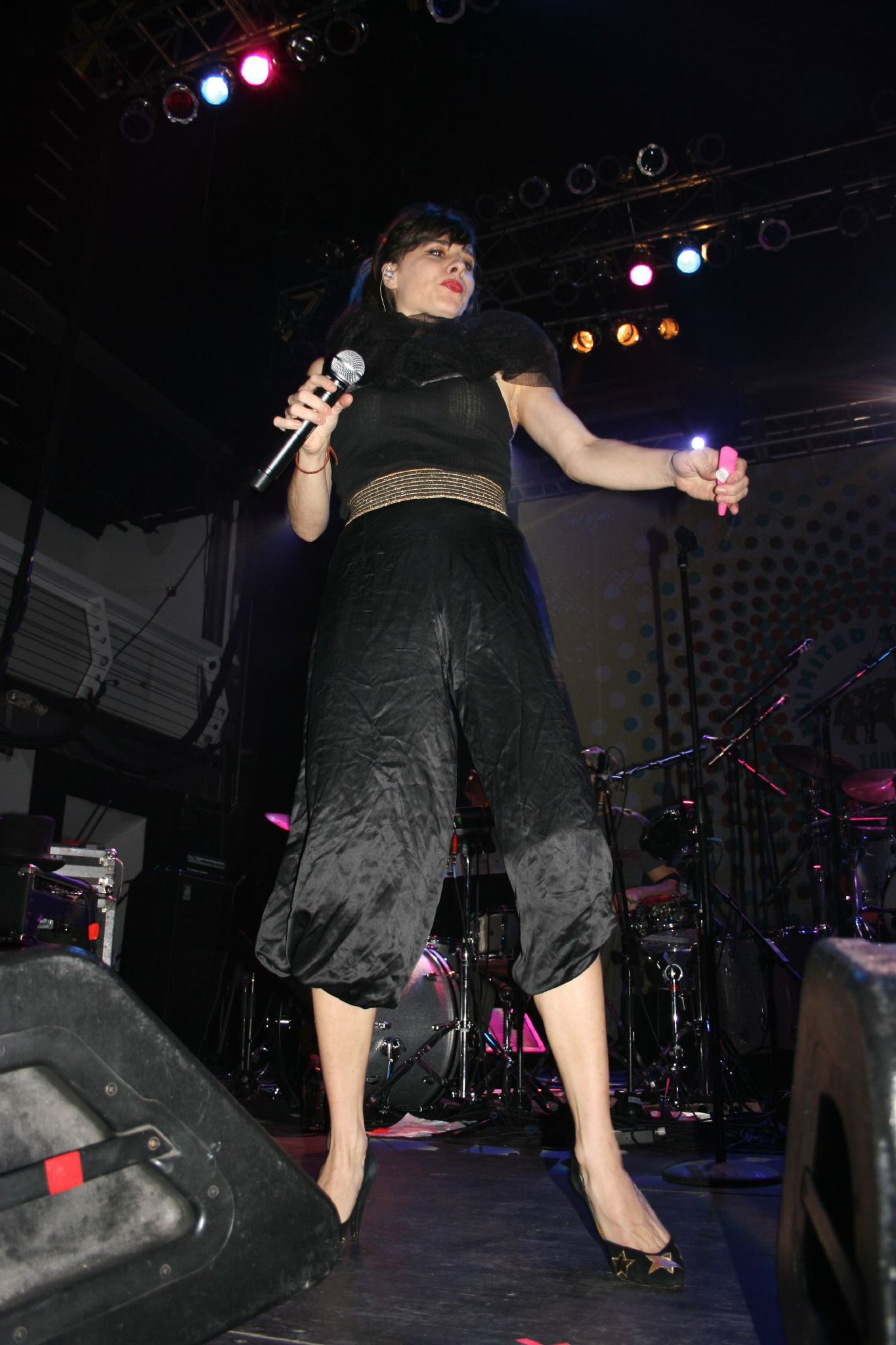 Sabina Sciubba of the band Brazilian Girls performing at Terminal 5 in New York City